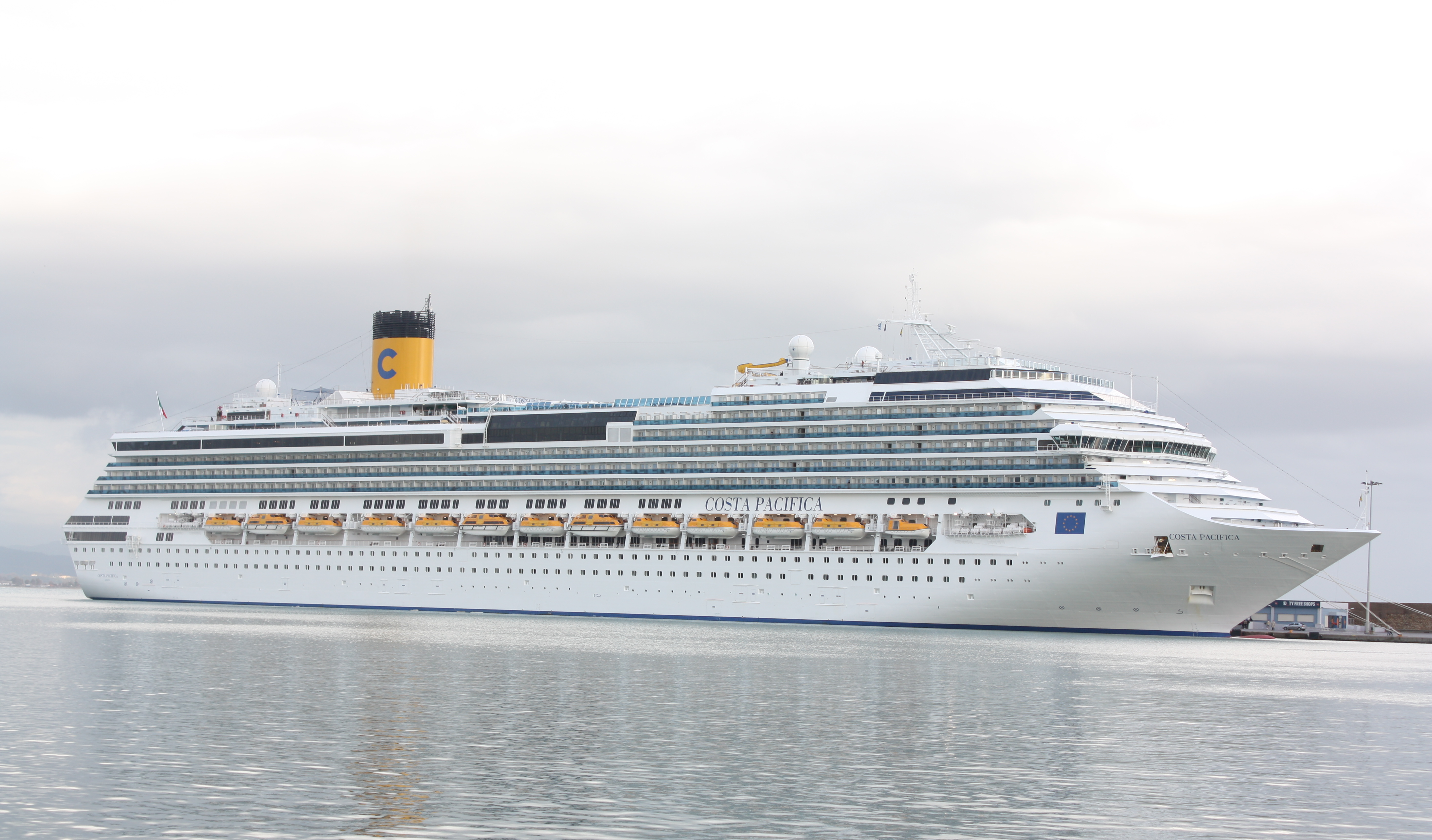 Costa Pacifica in Katakolo, Greece.